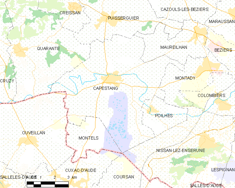 Map commune FR insee code 34052.png - Capestang